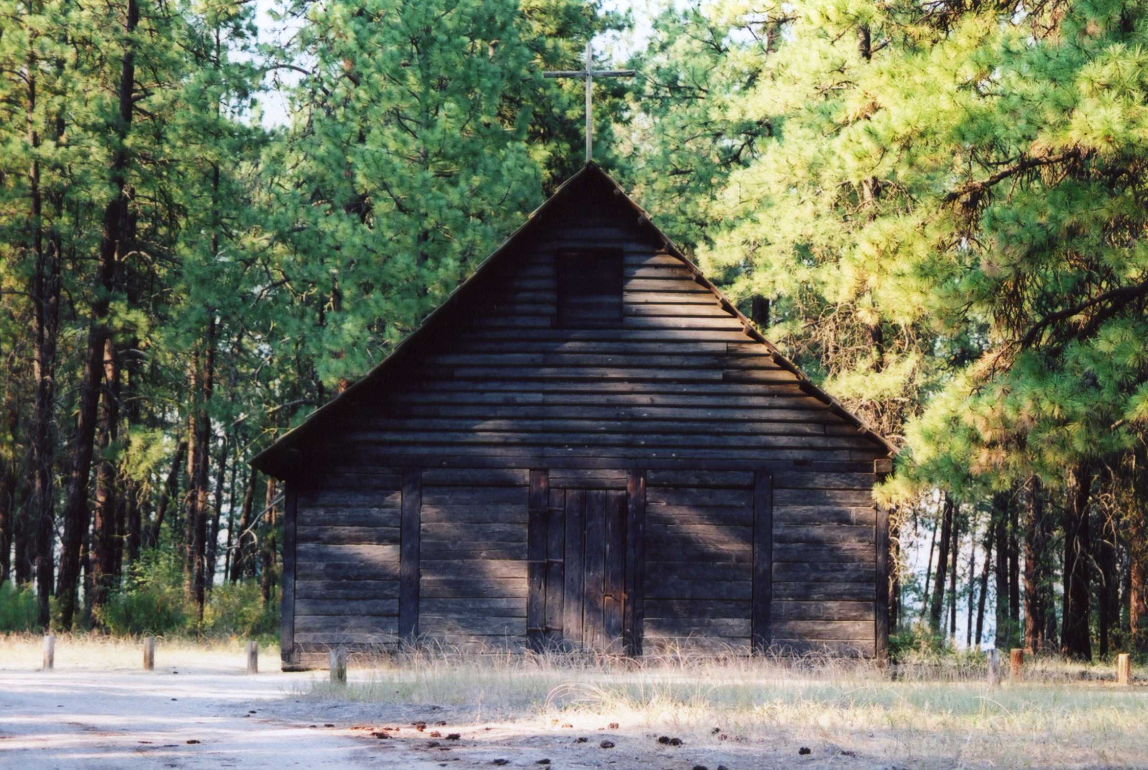 St. Paul's Mission, Lake Roosevelt, Washington. I took this picture August of 2006